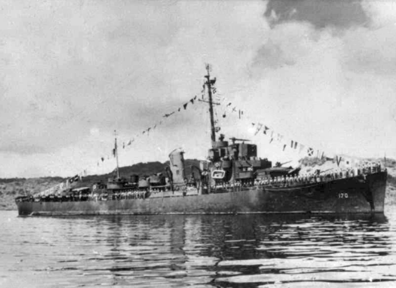 The U.S. Navy destroyer escort USS Booth (DE-170) at Truk Lagoon on Navy Day, 27 October 1945.